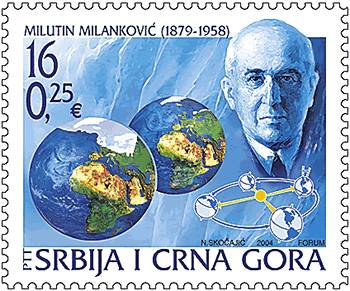 125 Years from the birth of Academic Milutin Milankovic